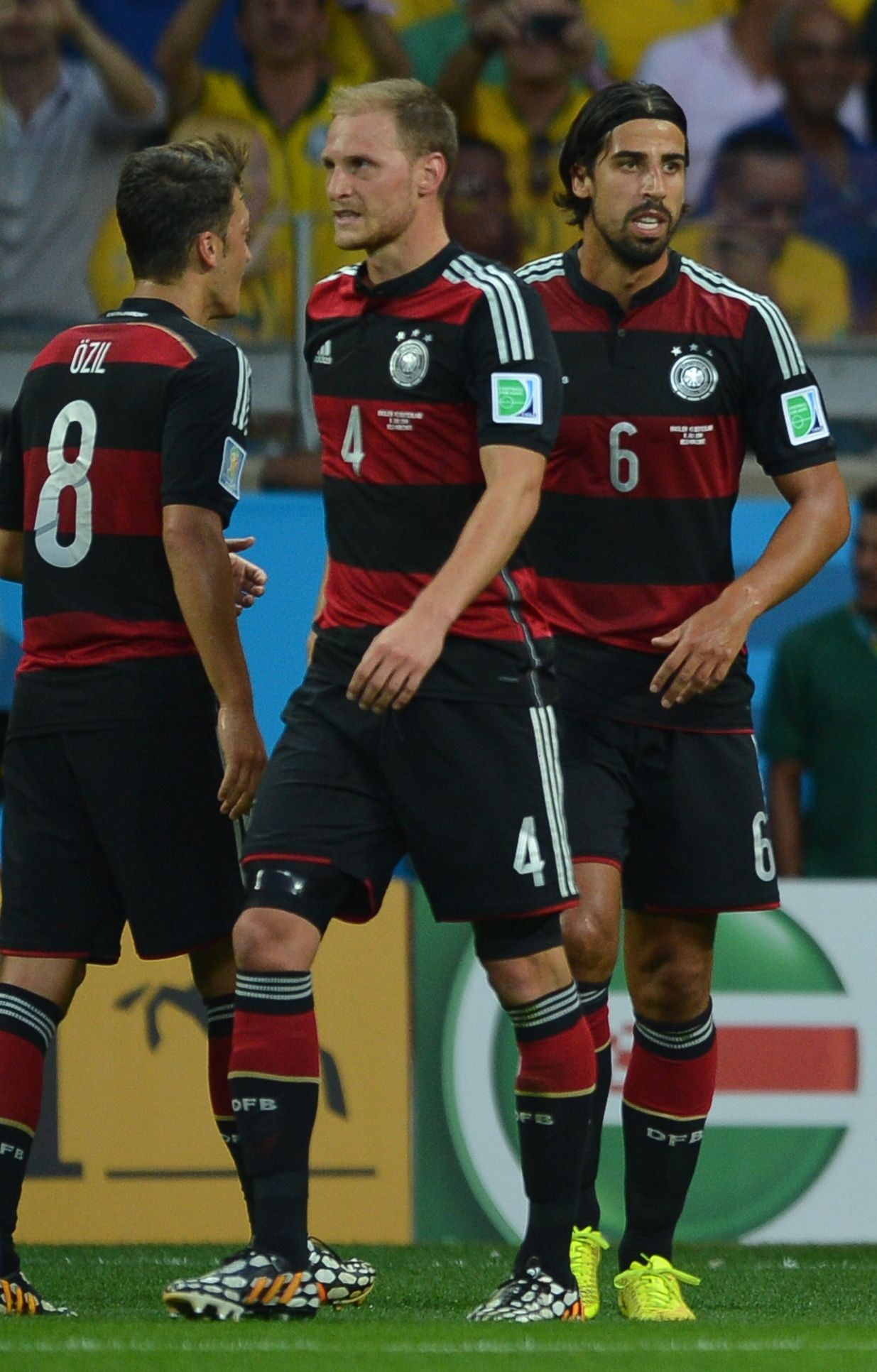 Brazil vs Germany, in Belo Horizonte. From left to right: Mesut Özil (8), Benedikt Höwedes (4), Sami Khedira (6).